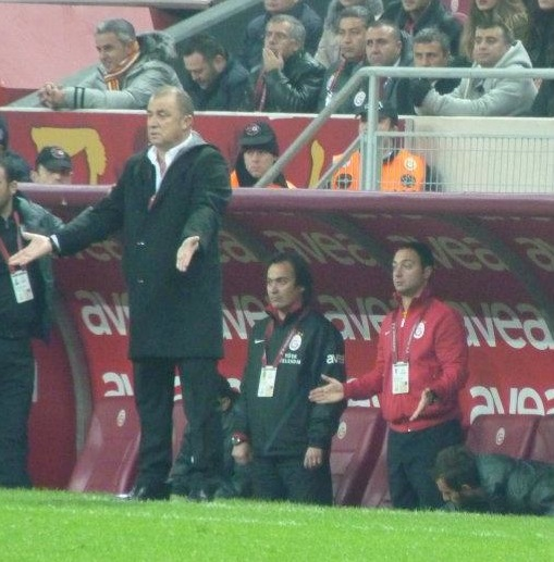 Fatih Terim @ GS-Manisa match